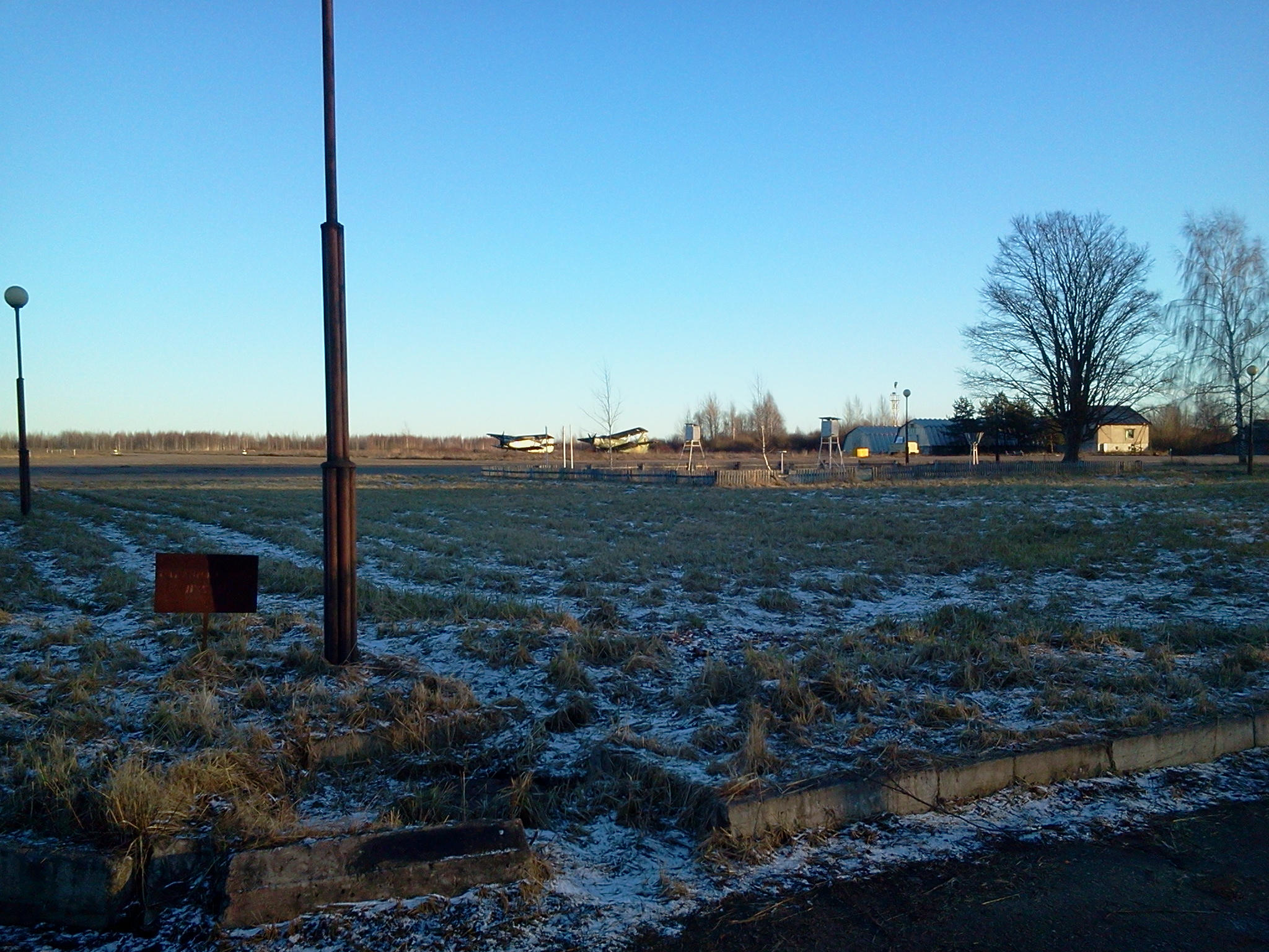 Panorama of airfield